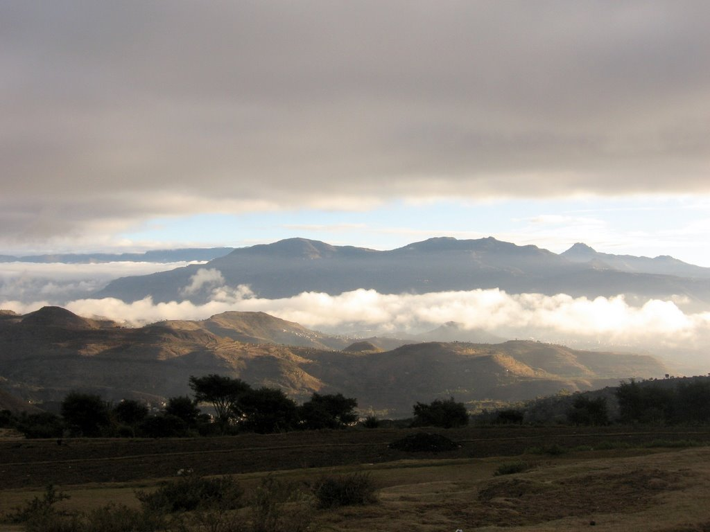 Morning in Jibla countryside, Yemen.